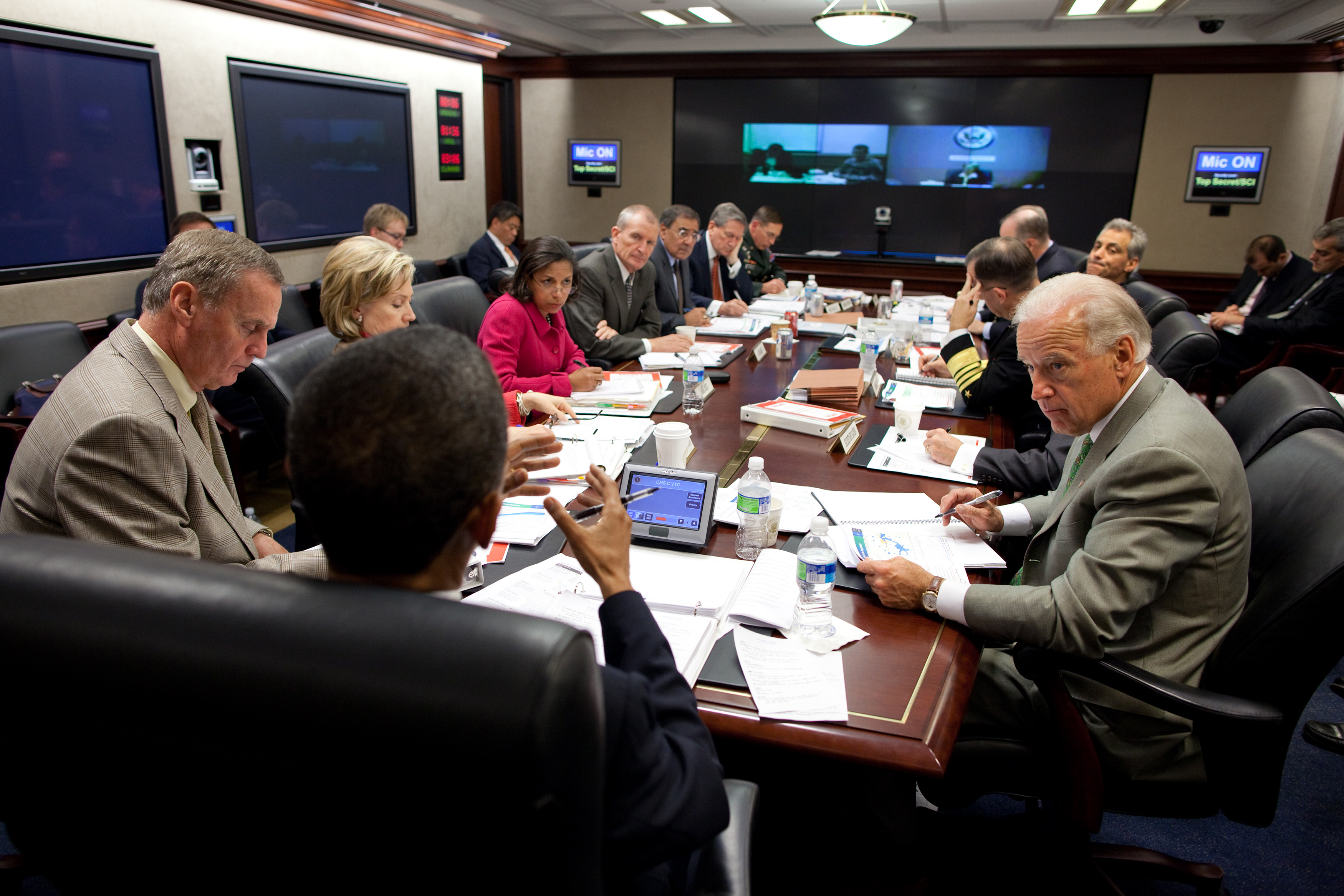 President Barack Obama attends a meeting on Afghanistan in the Situation Room in the White House. On his left, National Security Adviser James L. Jones, Secretary of State Hillary Clinton, U.S. Ambassador to the United Nations Susan Rice, National Intelligence Director Dennis C. Blair and CIA Director Leon Panetta. To his right, Vice President Joe Biden, Secretary of Defense Robert Gates (hidden), Chairman of the Joint Chiefs of Staff Admiral Michael Mullen, White House Chief of Staff Rahm Emanuel.